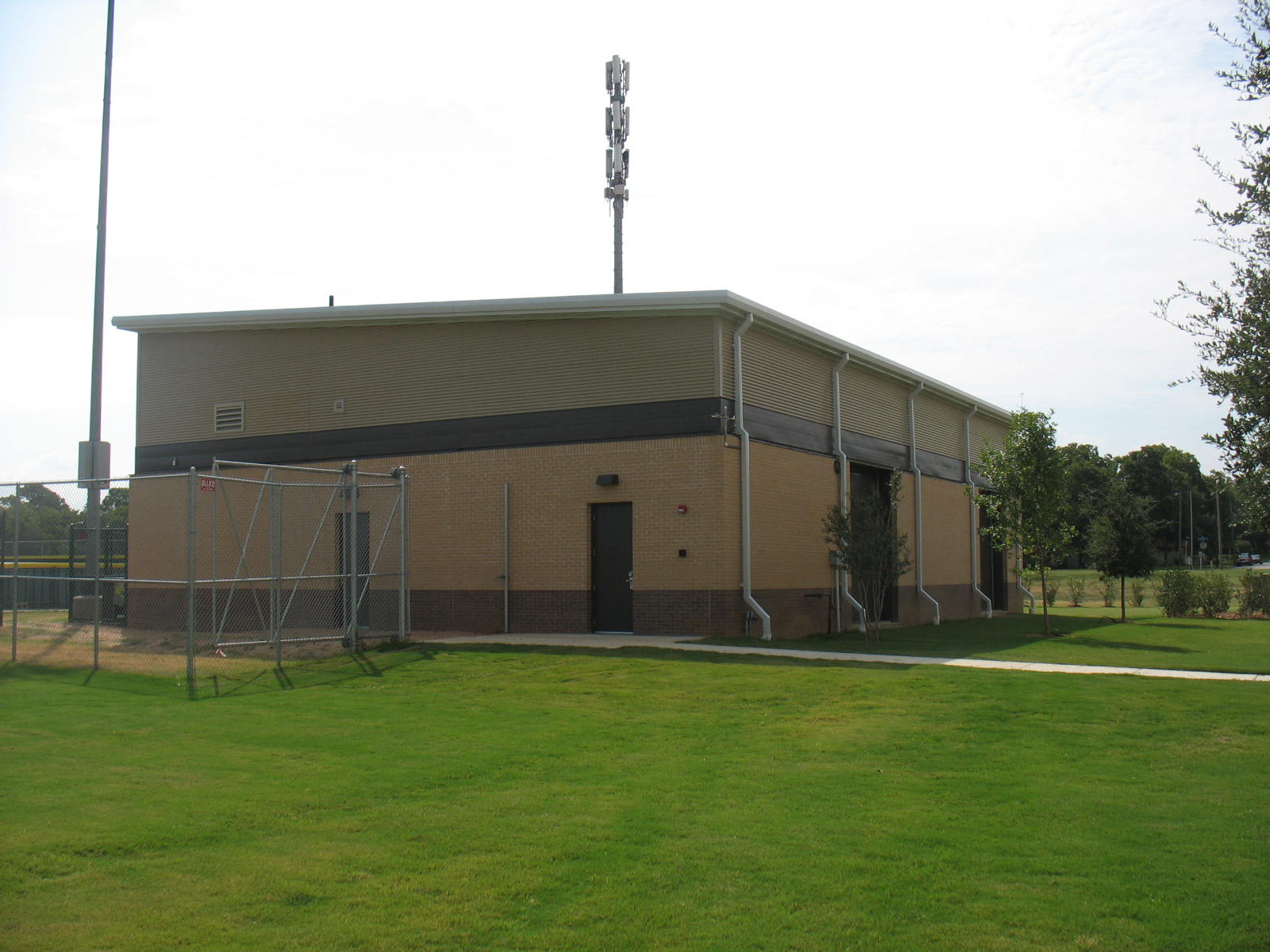 The indoor practice facility at Allan Saxe Field, located on the first base line